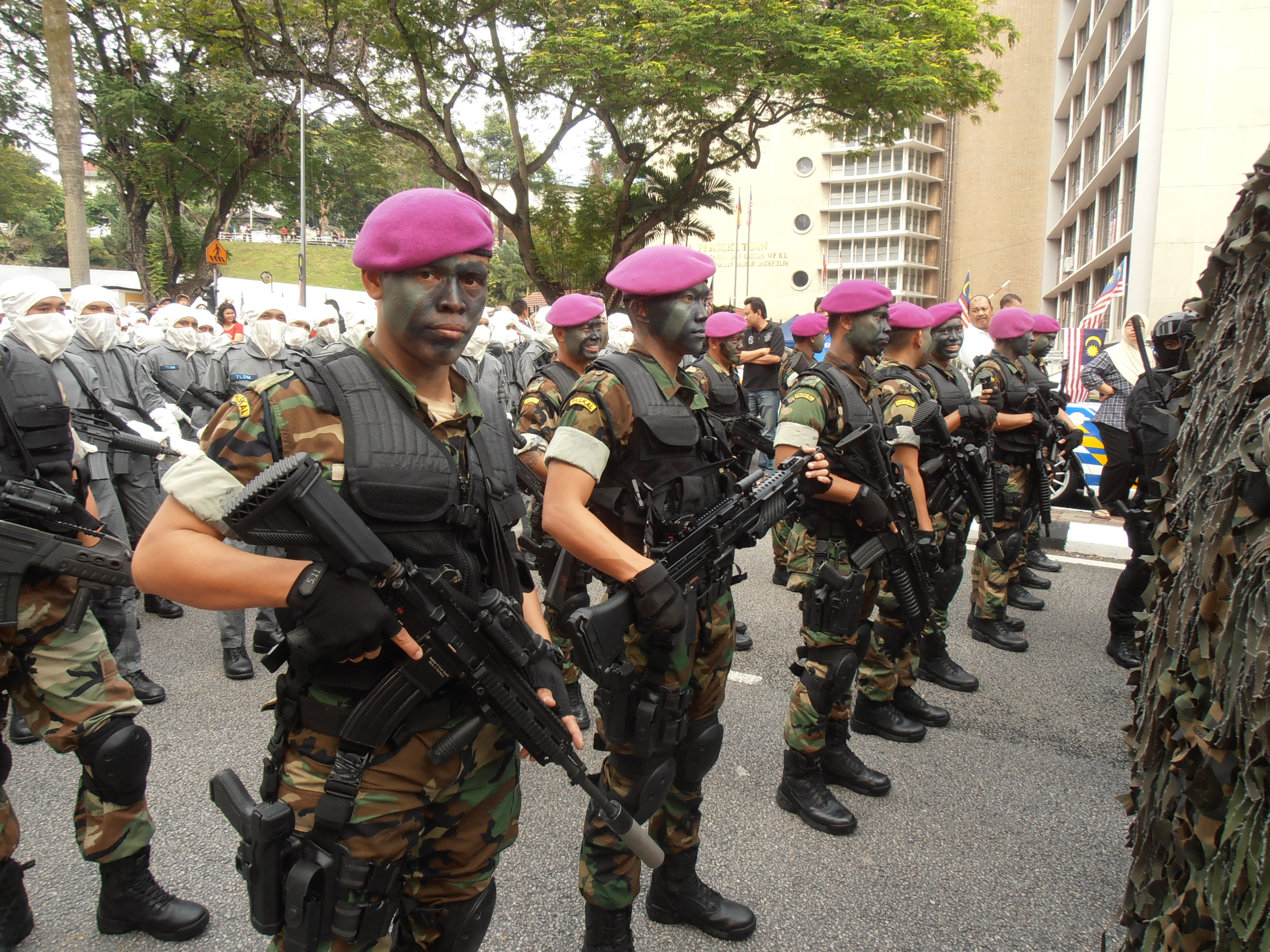 The navy PASKAL rifleman with the HK416-SD D20RS Maritime Assault Rifle on standby during the 57th National Day Parade of Malaysia at Merdeka Square, Kuala Lumpur. He dons the reddish purple (Magenta) coloured beret together with the woodland camouflage combat uniform is identical to that worn by the US Navy SEALs.